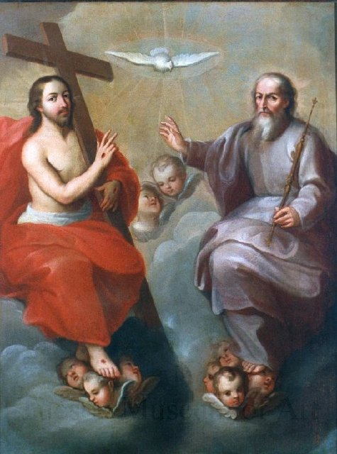 The Holy Trinity by Miguel Cabrera, 1757-1760, in the collection of the Tucson Museum of Art